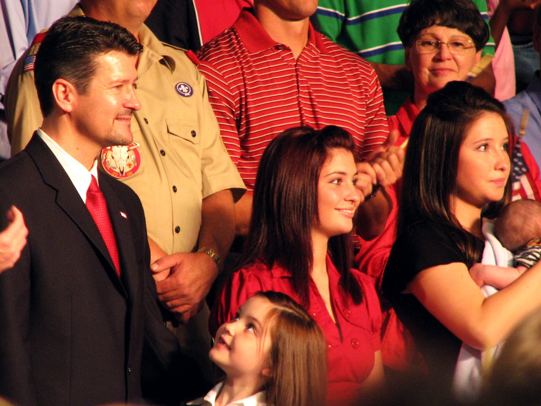 Sarah Palin's family at the announcement of Sarah Palin as the VP candidate